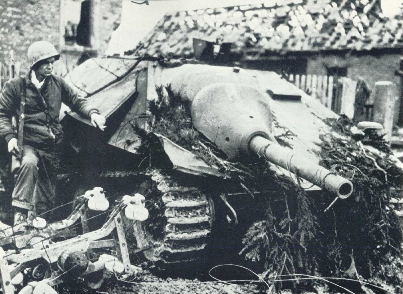 Abandoned Hetzer tank destroyer, captured by US troops